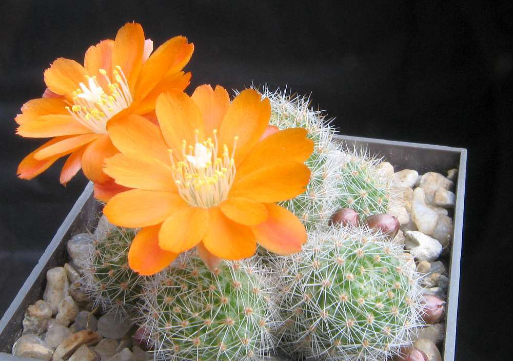 Rebutia pulvinosa (Aylostera pulvinosa) - cultivated plant from own collection.